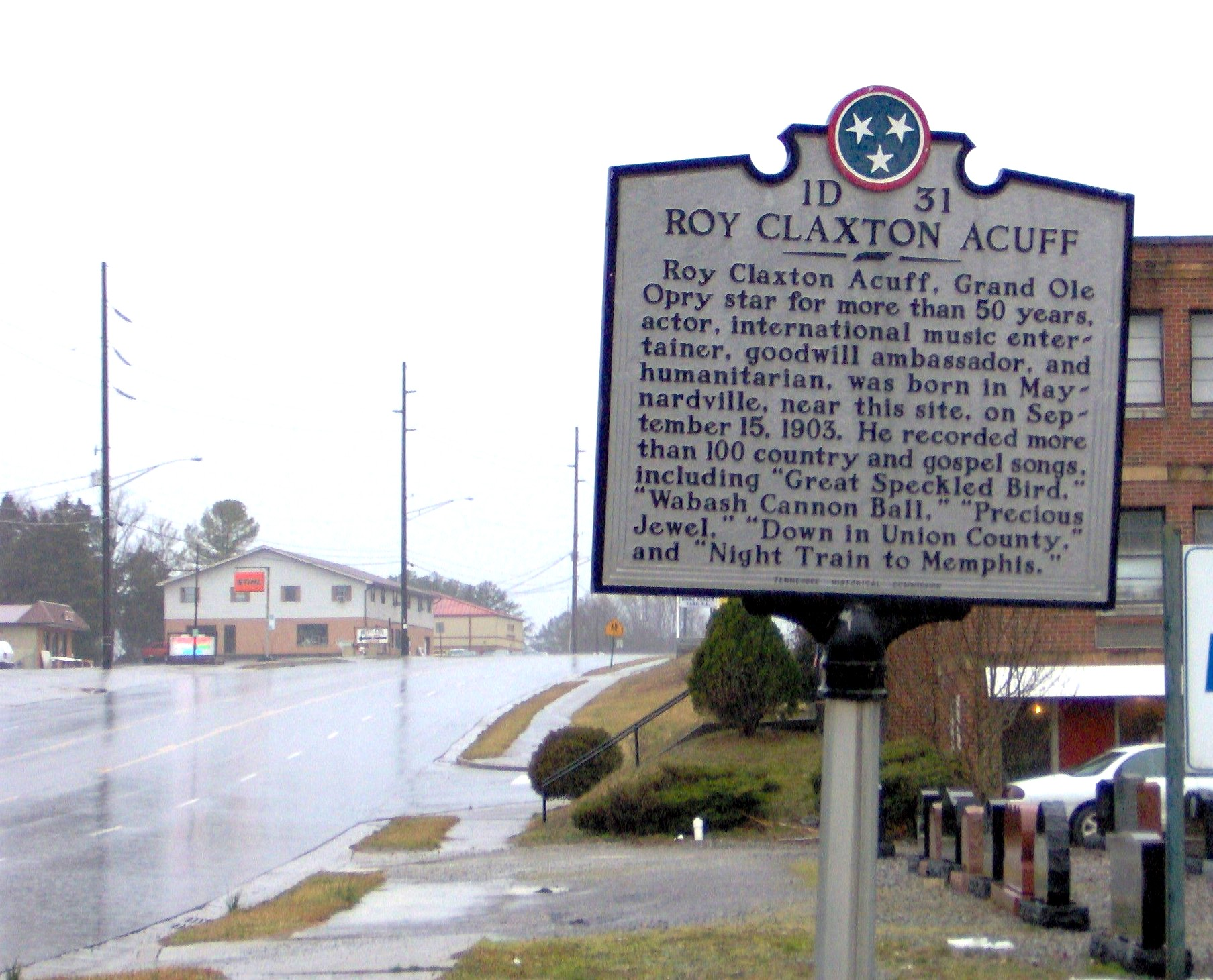 Tennessee Historical Commission marker along Maynardville Highway (TN-33) in Maynardville, Tennessee, in the southeastern United States. Country music singer Roy Acuff was born in Maynardville in 1903. The town's local history museum and library are both named for Acuff.